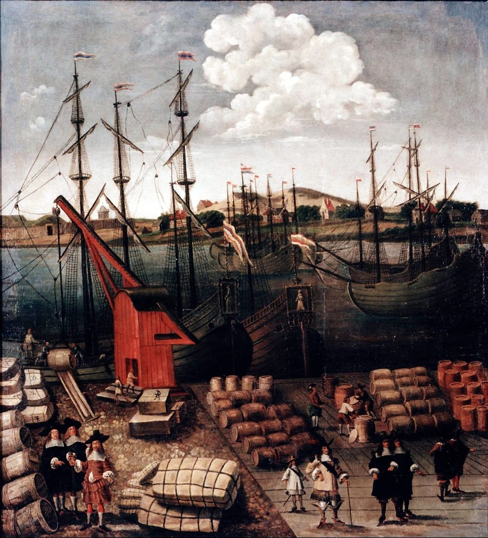 Riga harbor in the late 17th century